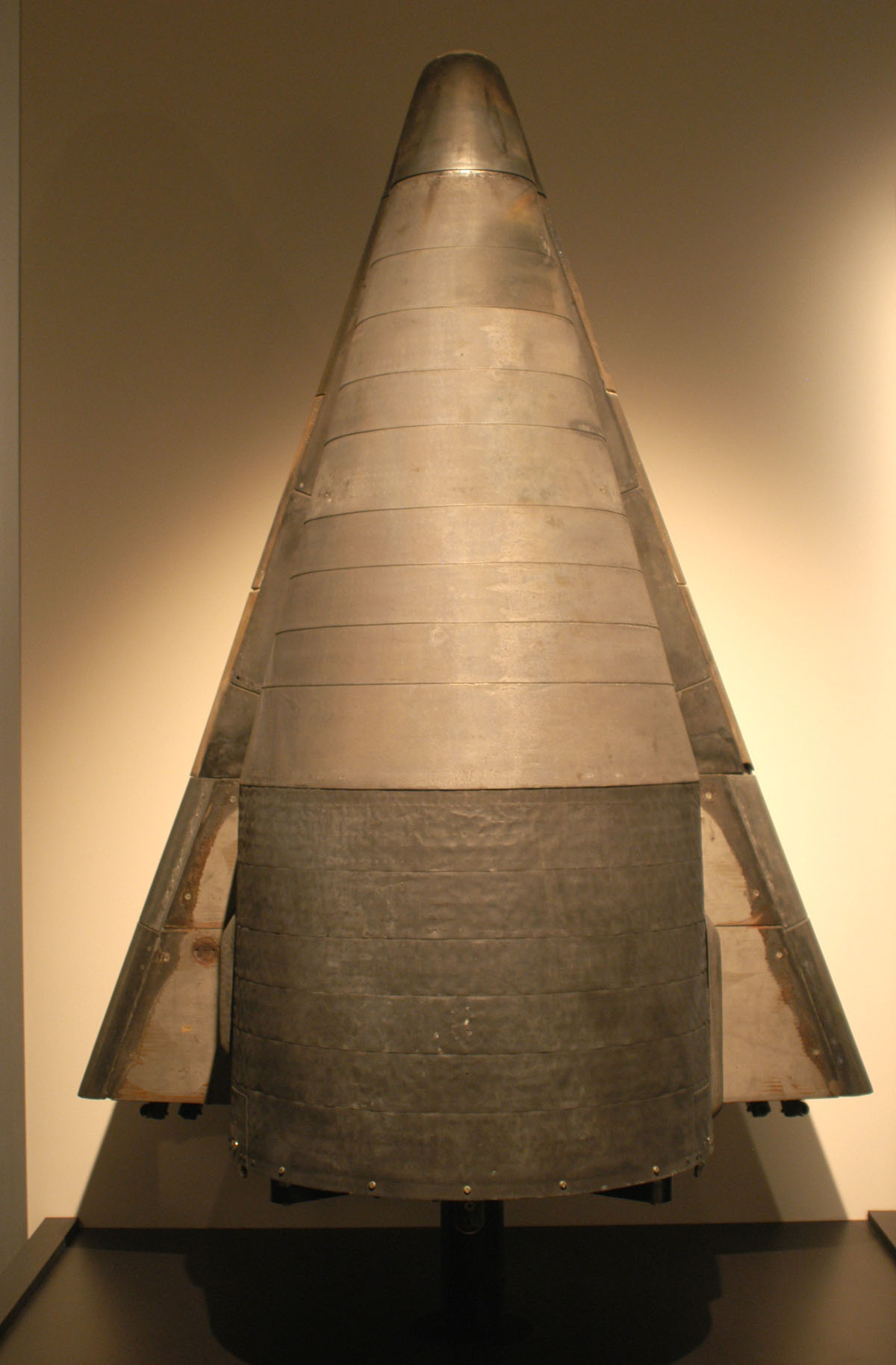 Photograph of a preserved ASV-3 ASSET subscale spaceplane on display at the National Museum of the United States Air Force, Dayton, Ohio USA.